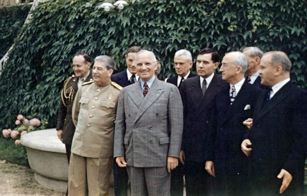 Harry S. Truman and Joseph Stalin meeting at the Potsdam Conference on 18 July 1945. From left to right, first row: Stalin, Truman, Soviet Ambassador Gromyko, US Secretary of State Byrnes, and Soviet Foreign Minister Molotov. Second row: Truman confidant Vaughan [1], Russian interpreter Bohlen, Truman naval aide Vardaman, and Ross (partially obscured).